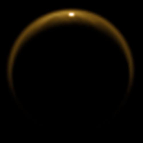 Reflection of Sunlight off Titan Lake